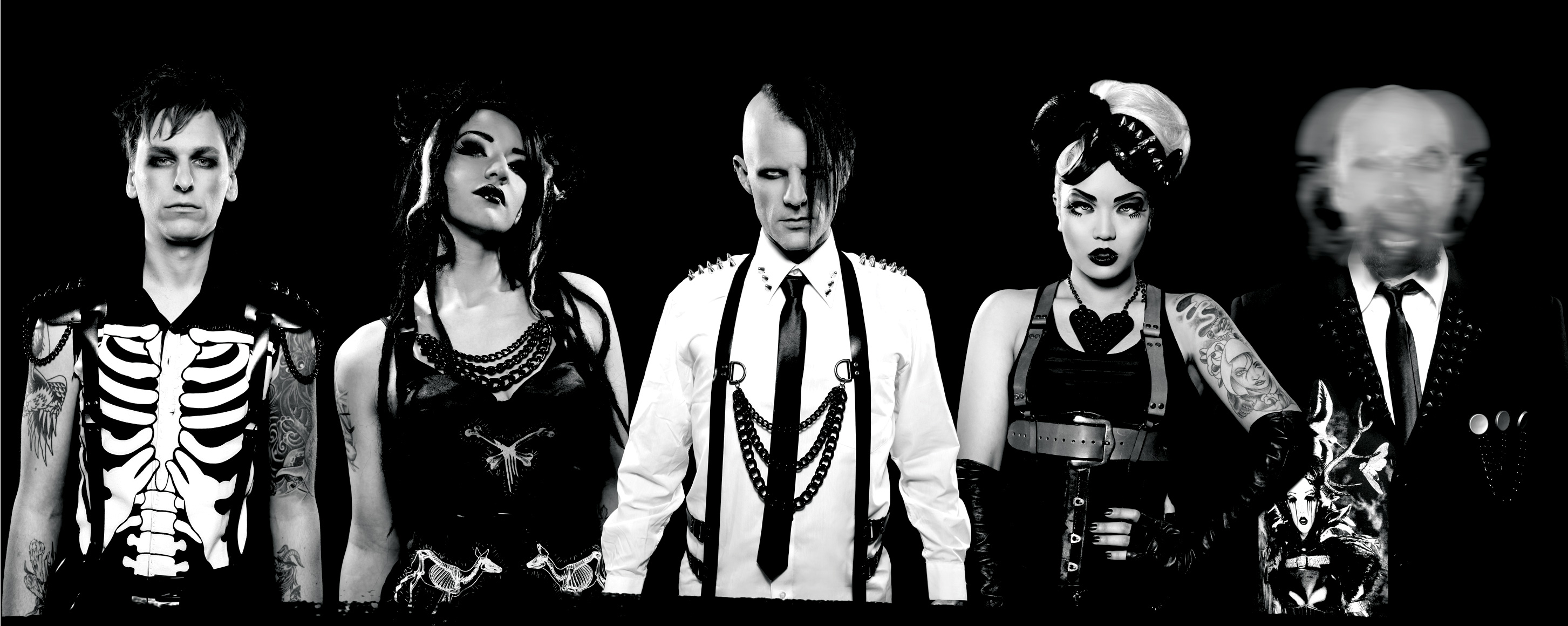 The new Angelspit 5-piece line-up